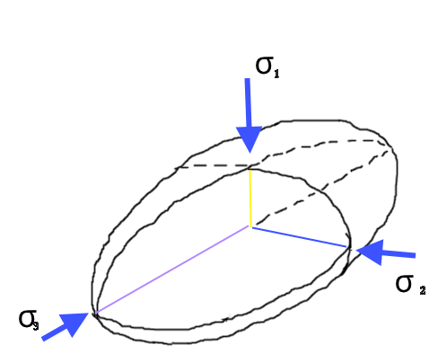 Sketch of a strain ellipsoid